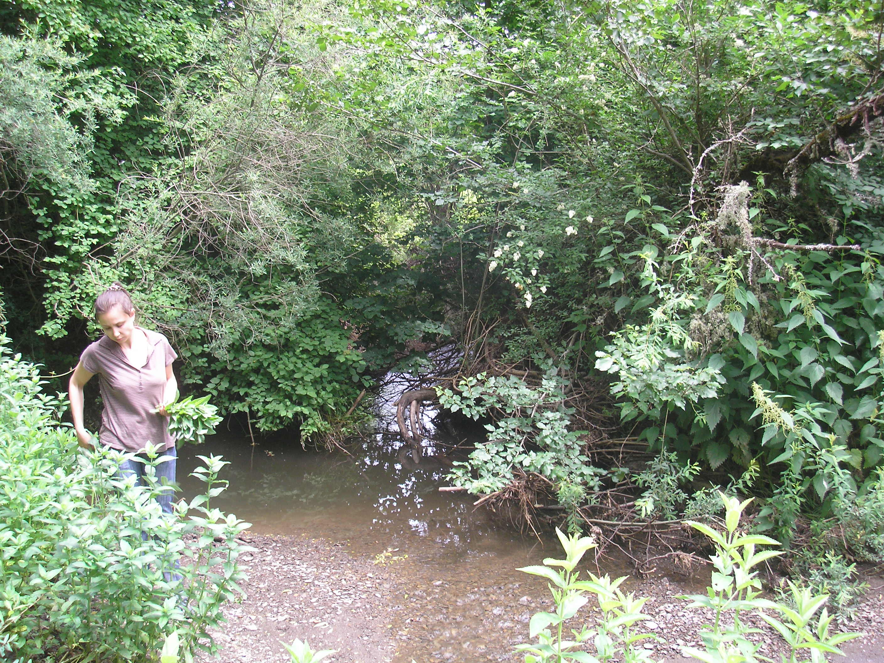 Finaros River, a tributary of the River Marta, Bakhchisaray district, Crimea.